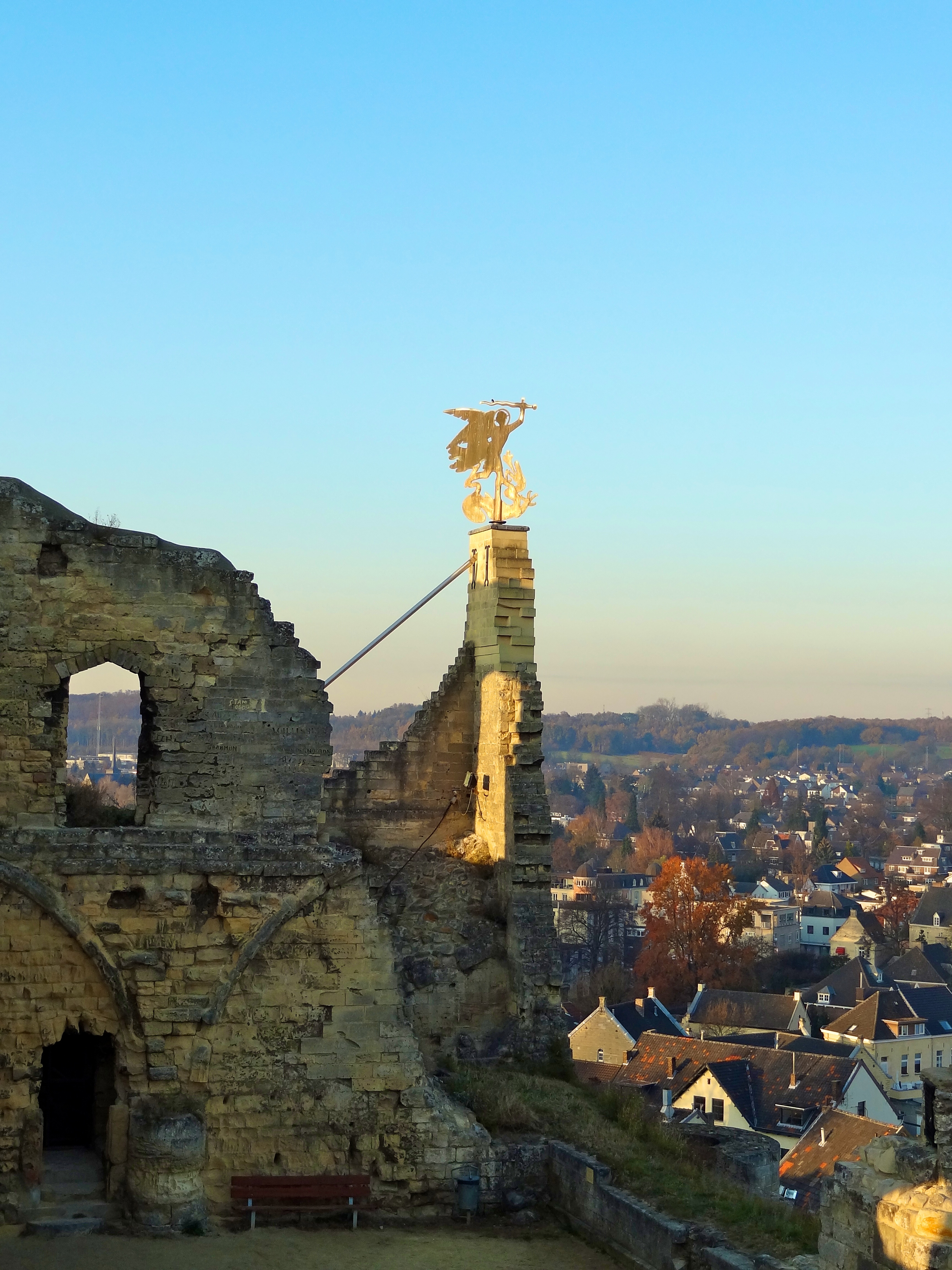 Castle Valkenburg - View with weather vane